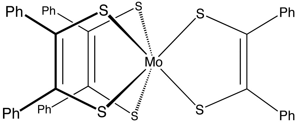 structure of tris)dithiolene)Mo